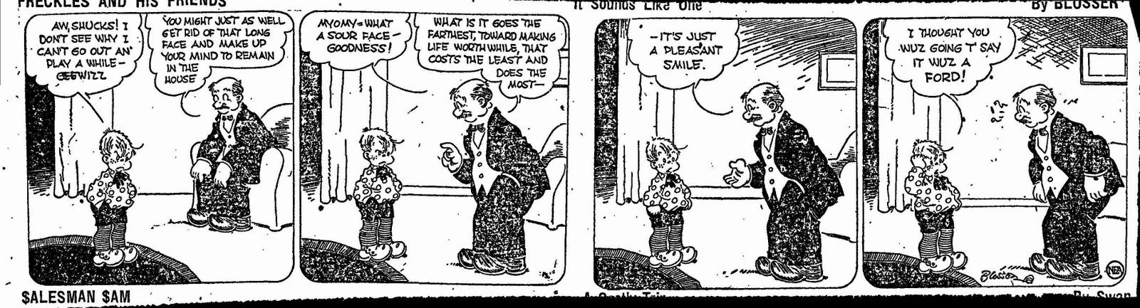 Copy of the comic strip Freckles and His Friends. A search of contributions to publications and artwork was done for the years 1951 and 1952. There were no listings for Merrill Blosser or for NEA or any variation on it. There's no evidence this is still under copyright.